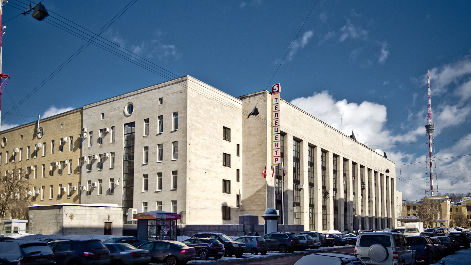 Television Broadcasting Center of Saint Petersburg. "Petersburg - 5th Channel" Broadcasting Company headquarters. Chapygina street, building 6.